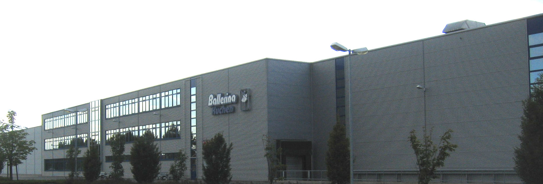 Ballerina Küchen, a kitchen manufacturer, in the town of Rödinghausen-Bruchmühlen, Germany.